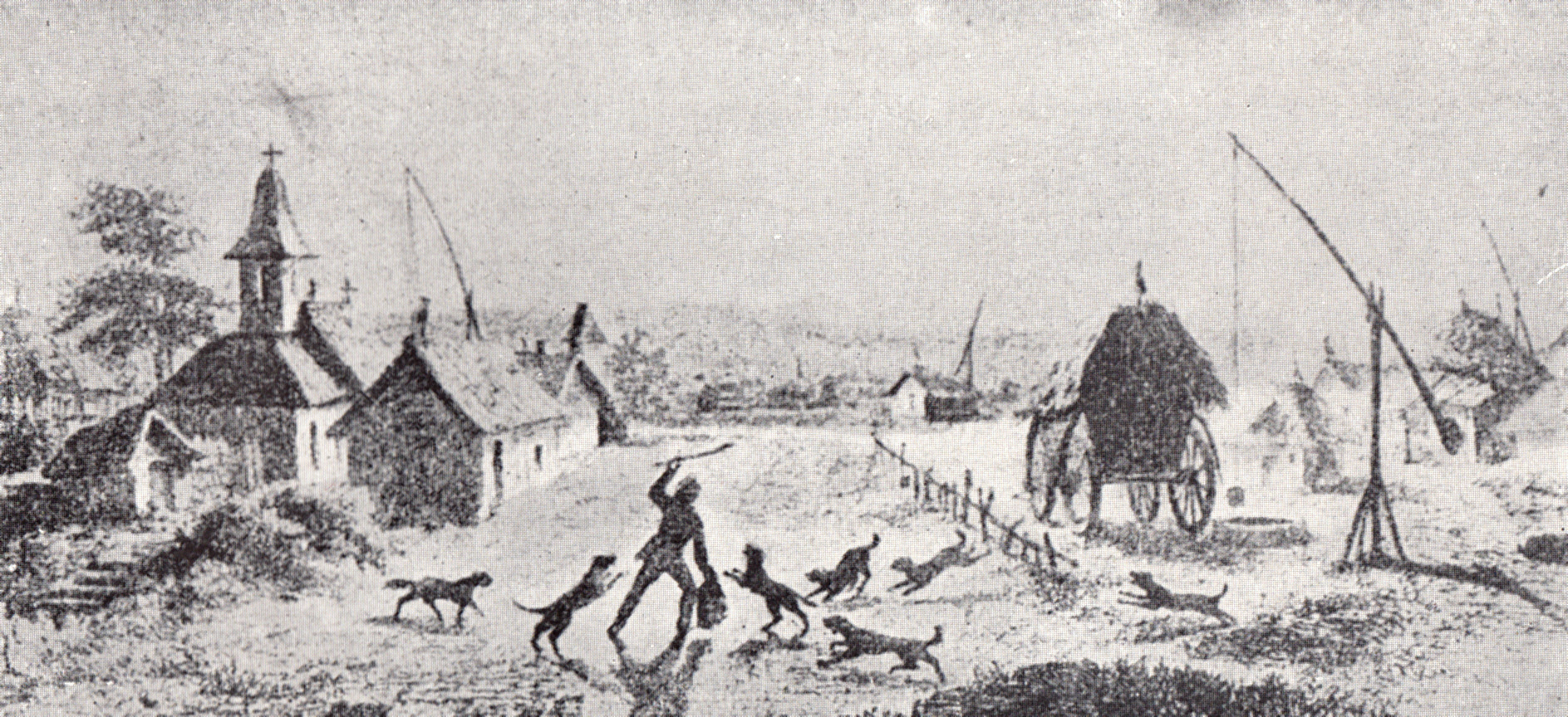 Illustration to Vasile Alecsandri's Balta-Albă short story, originally published in L'Illustration magazine, 1854. Also described as Un străin asaltat de câini pe uliţele satului ("A stranger assailed by dogs on the village's streets").